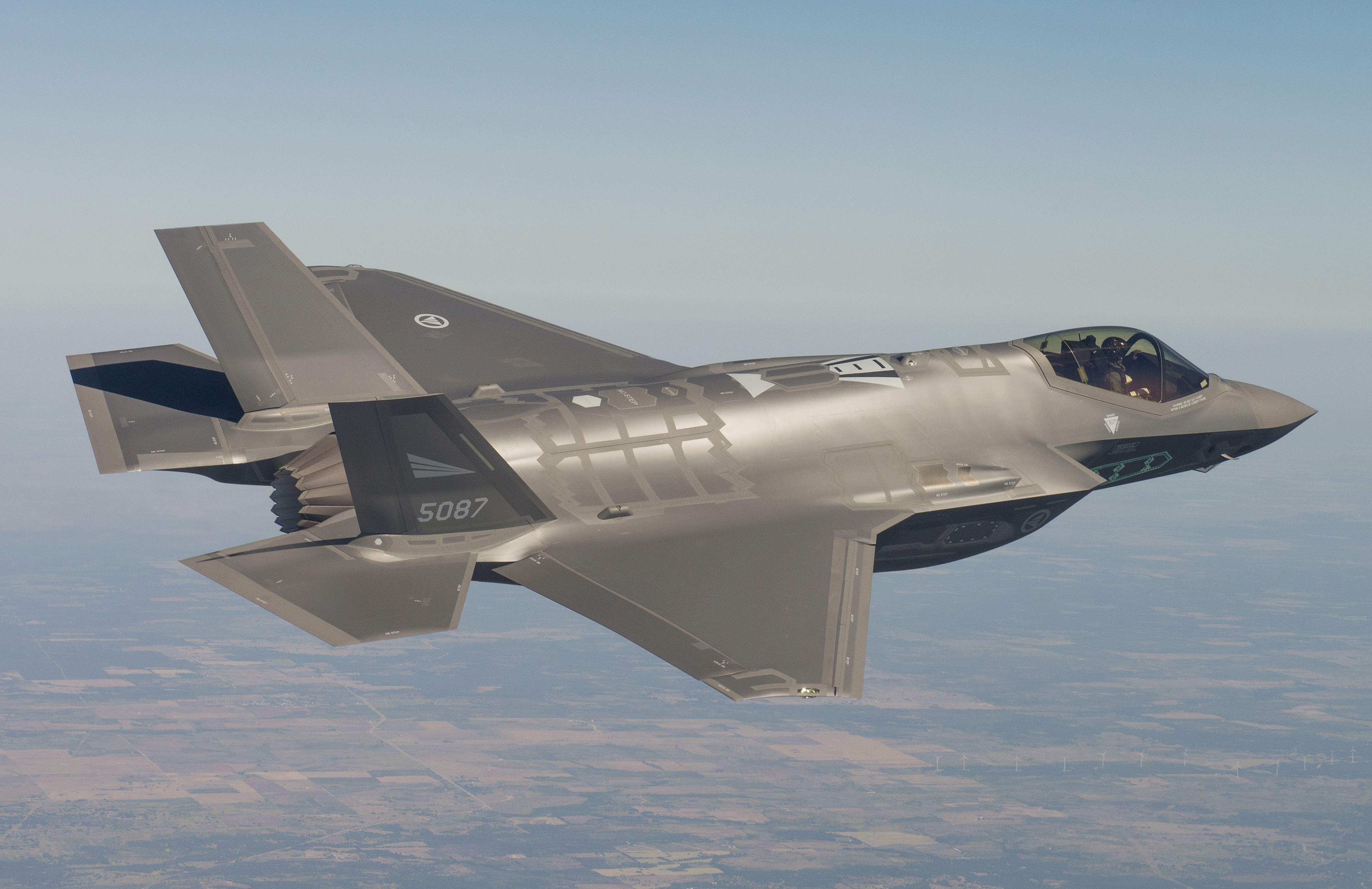 Lockheed Martin Aeronautics Photo by Kaszynski FP150355 Reed Event: AM-01 Gov Flight 1 Customer: Allie Reed Murray, F-35 Communications Location: Fort Worth, TX Pilot: Lt Col. Parzych Date: 10-15-2015 Time: 1030 Image Public Releaseable per Allie Reed Murray, F-35 Communications